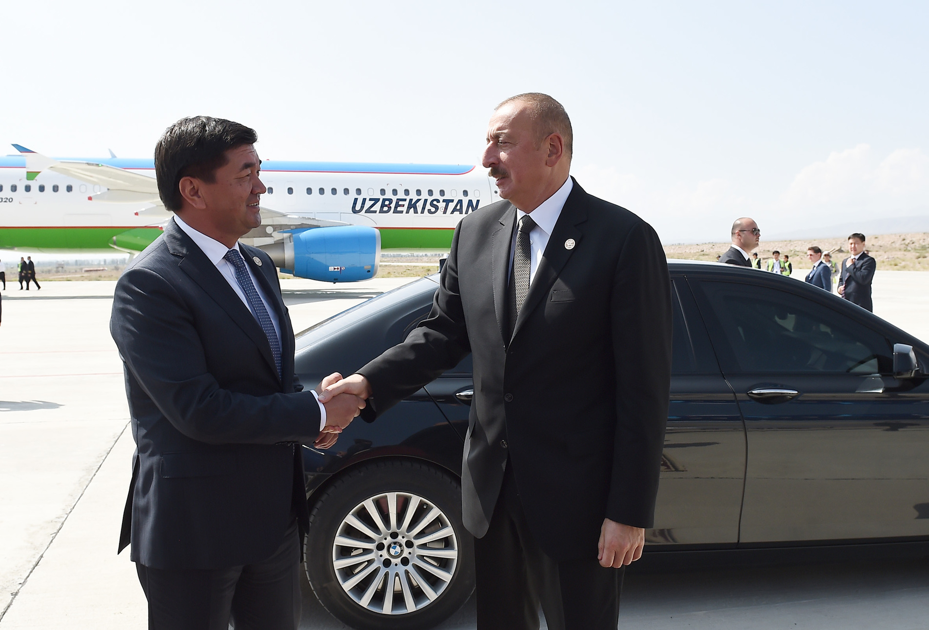 President Ilham Aliyev completed official visit to Kyrgyzstan